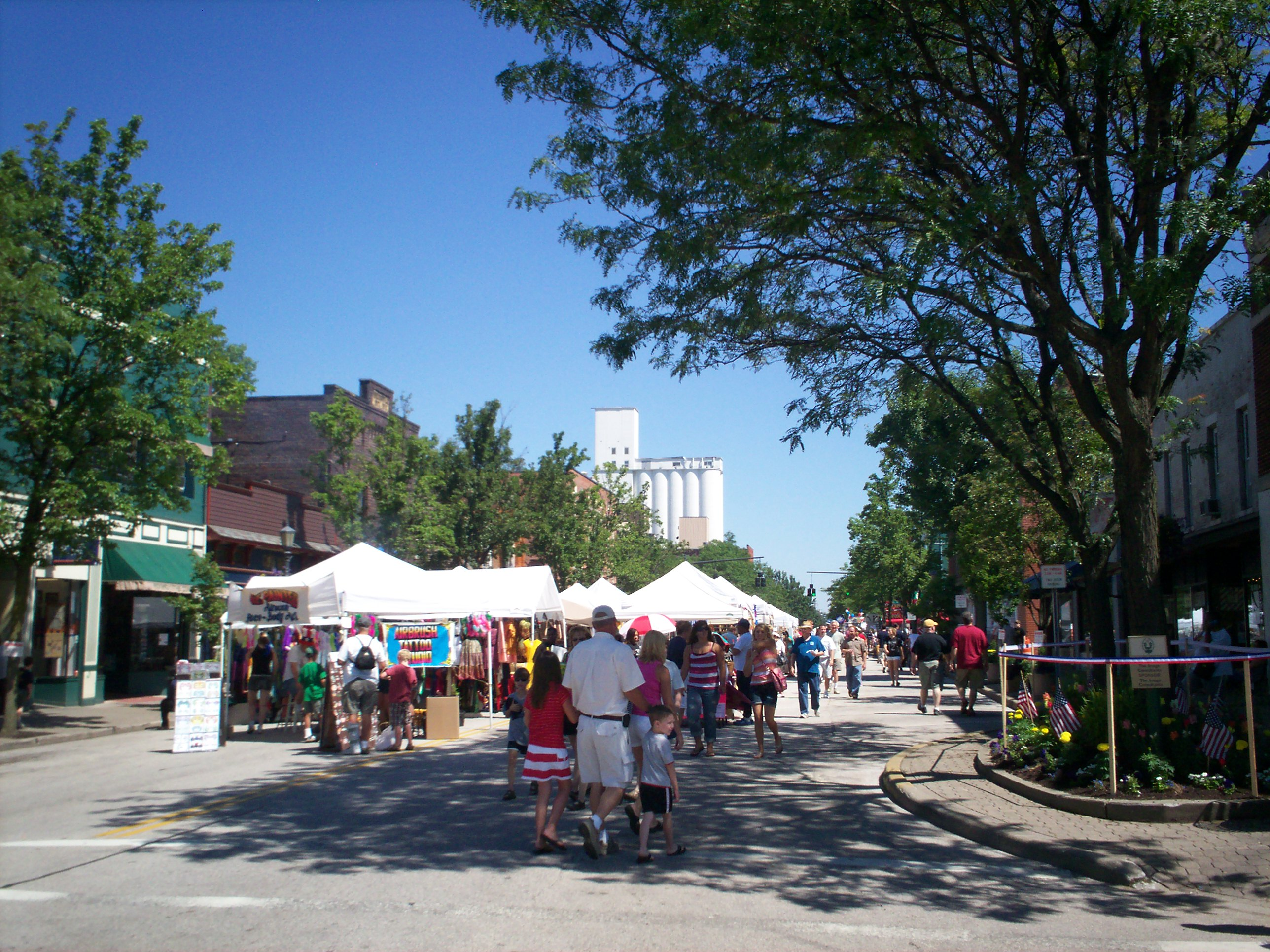 View of the Heritage Festival in downtown Kent, Ohio on South Water Street looking north.